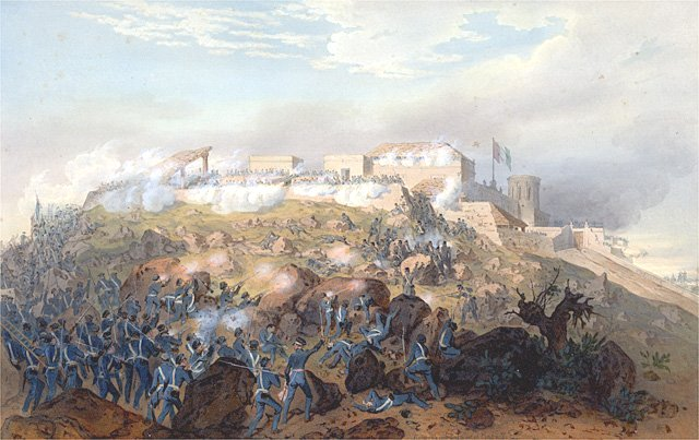 Battle of Chapultepec during the Mexican-American War, painting by Carl Nebel.